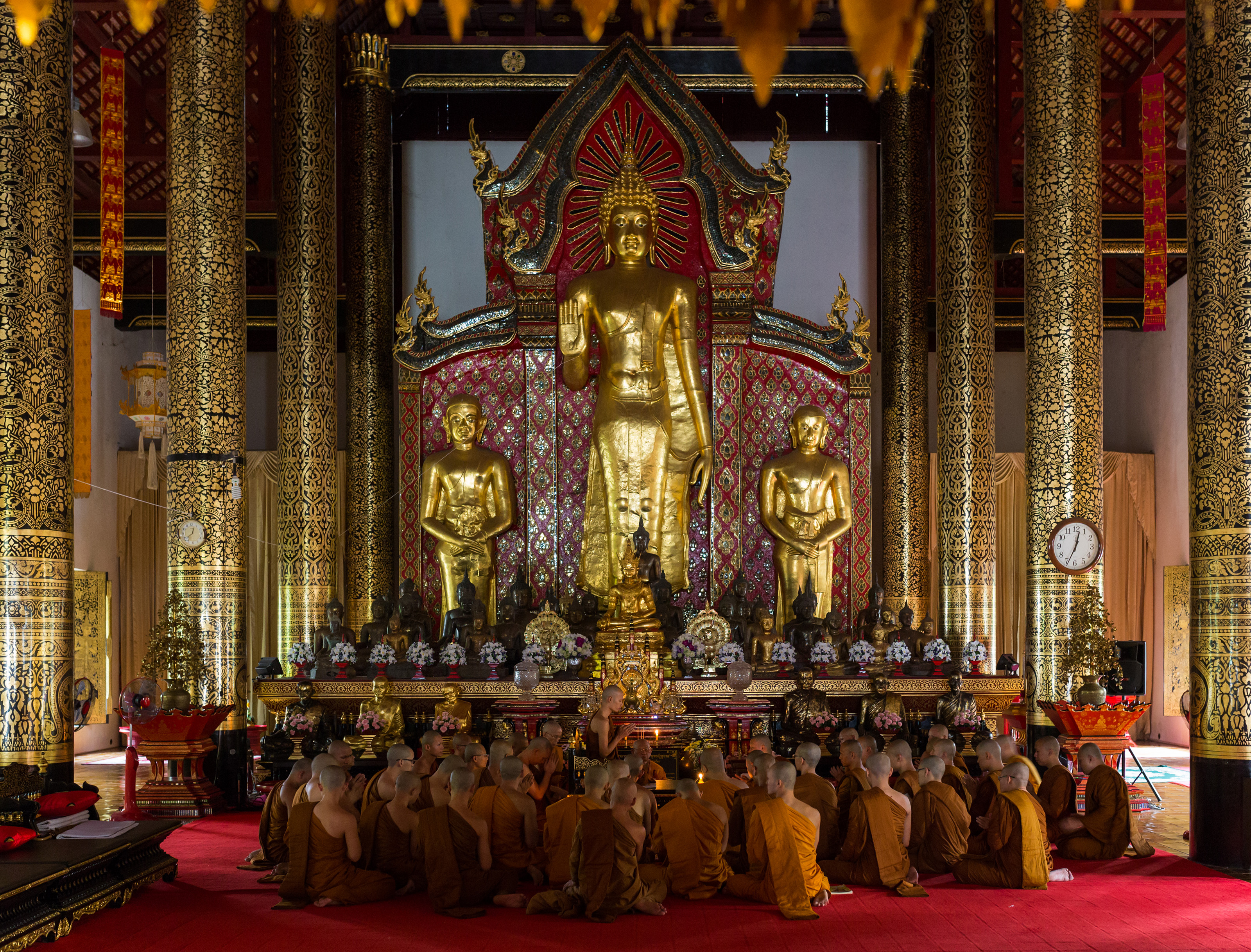 Buddhist monks chanting in the assembly hall to the east of Wat Chedi Luang in Chiang Mai, Thailand. The large viharn (assembly hall) next to the ruined chedi was built in 1928. Its impressive interior, with round columns supporting a high red ceiling, contains a standing Buddha known as the Phra Chao Attarot. Made of brass alloy and mortar, the Buddha dates from the time of the temple's founder, King Saen Muang Ma (late 14th century).